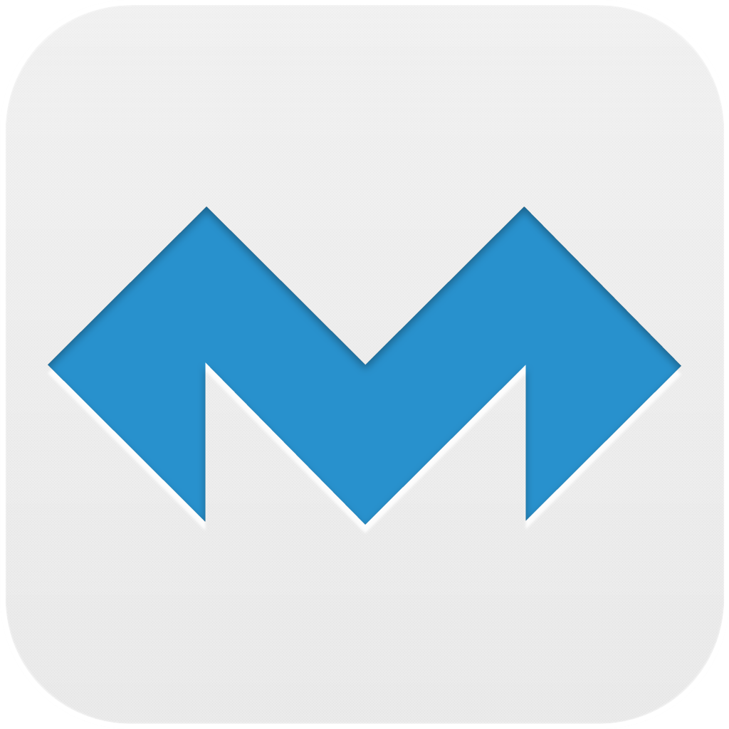 MolaSync App Icon